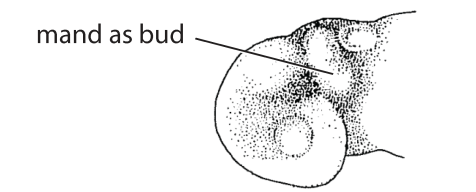 Standard Event System character depiction